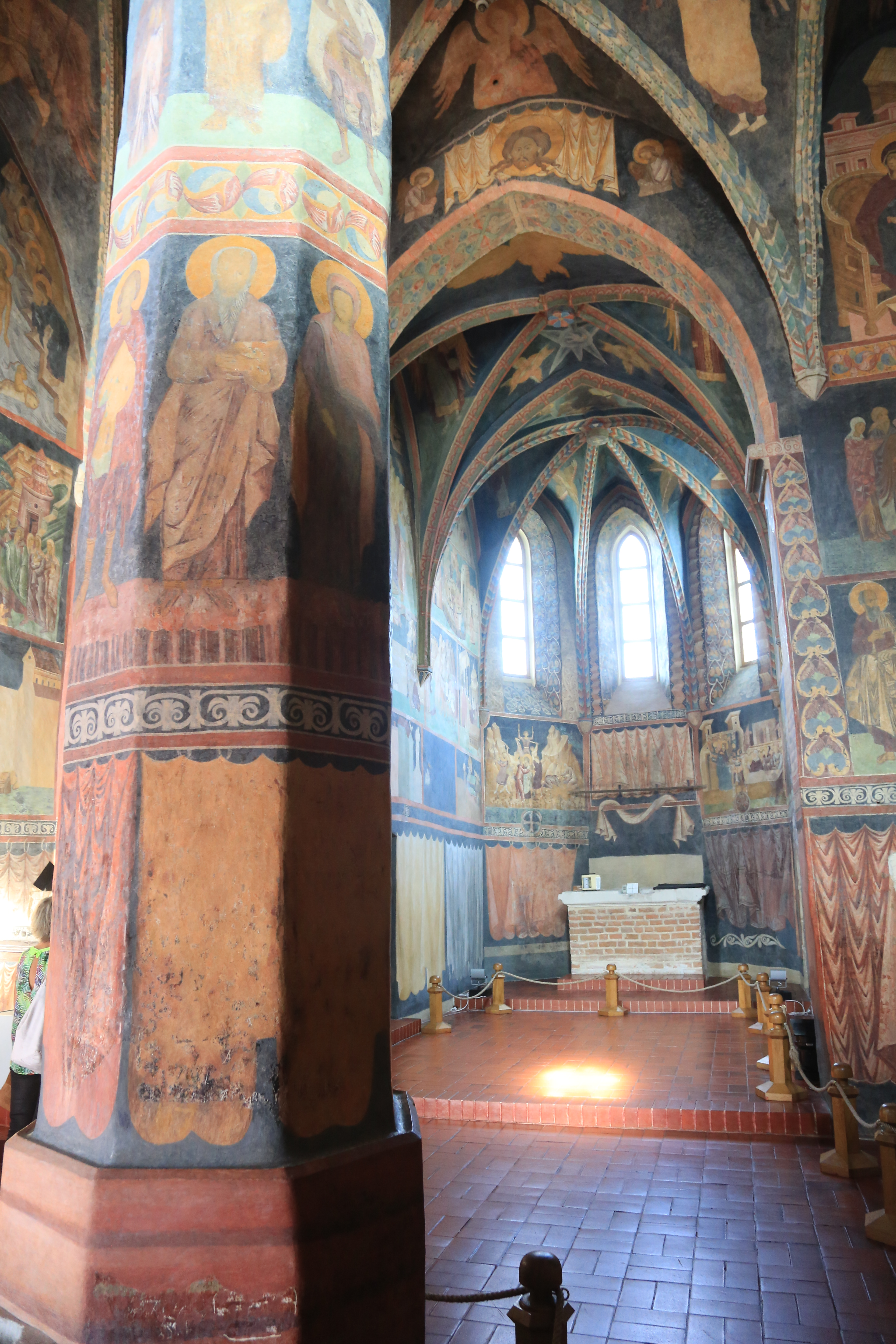 Trinity Chapel in Lublin